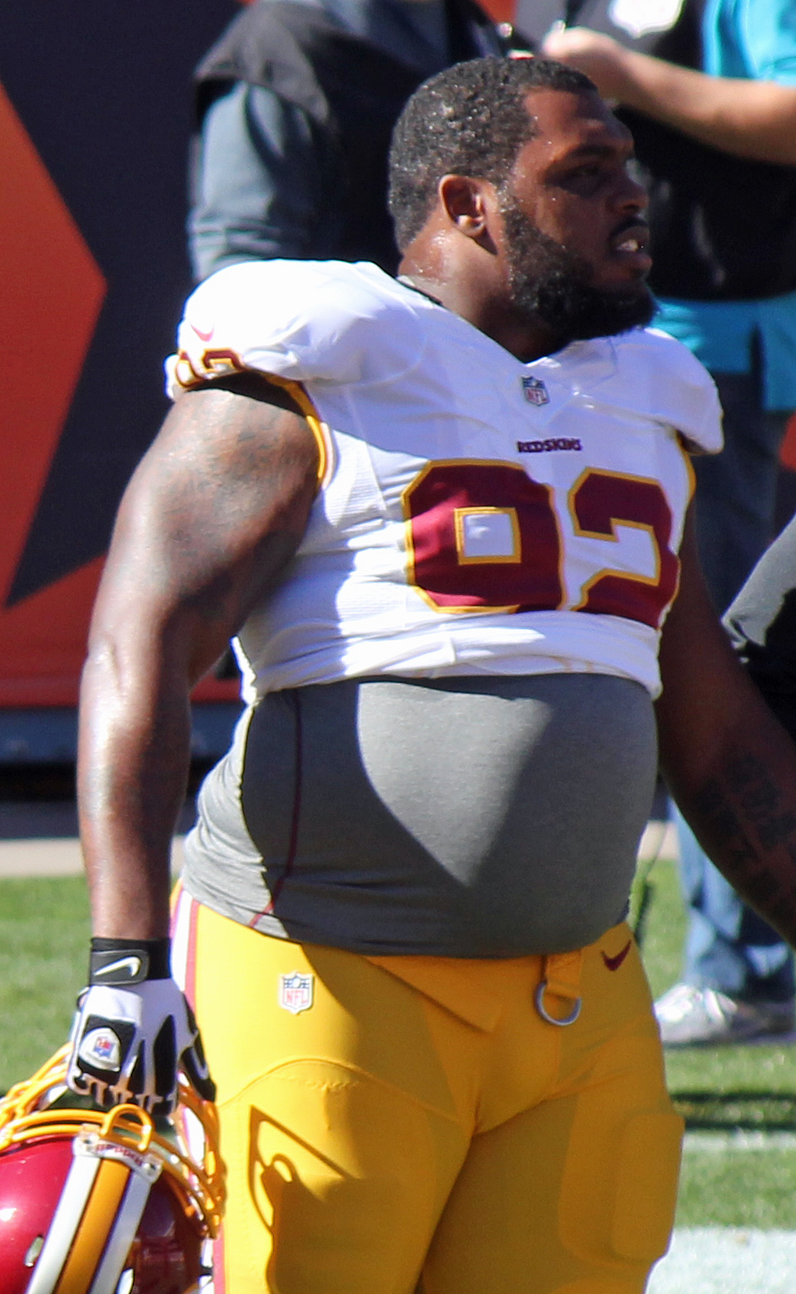 Chris Baker, a player on the National Football League.